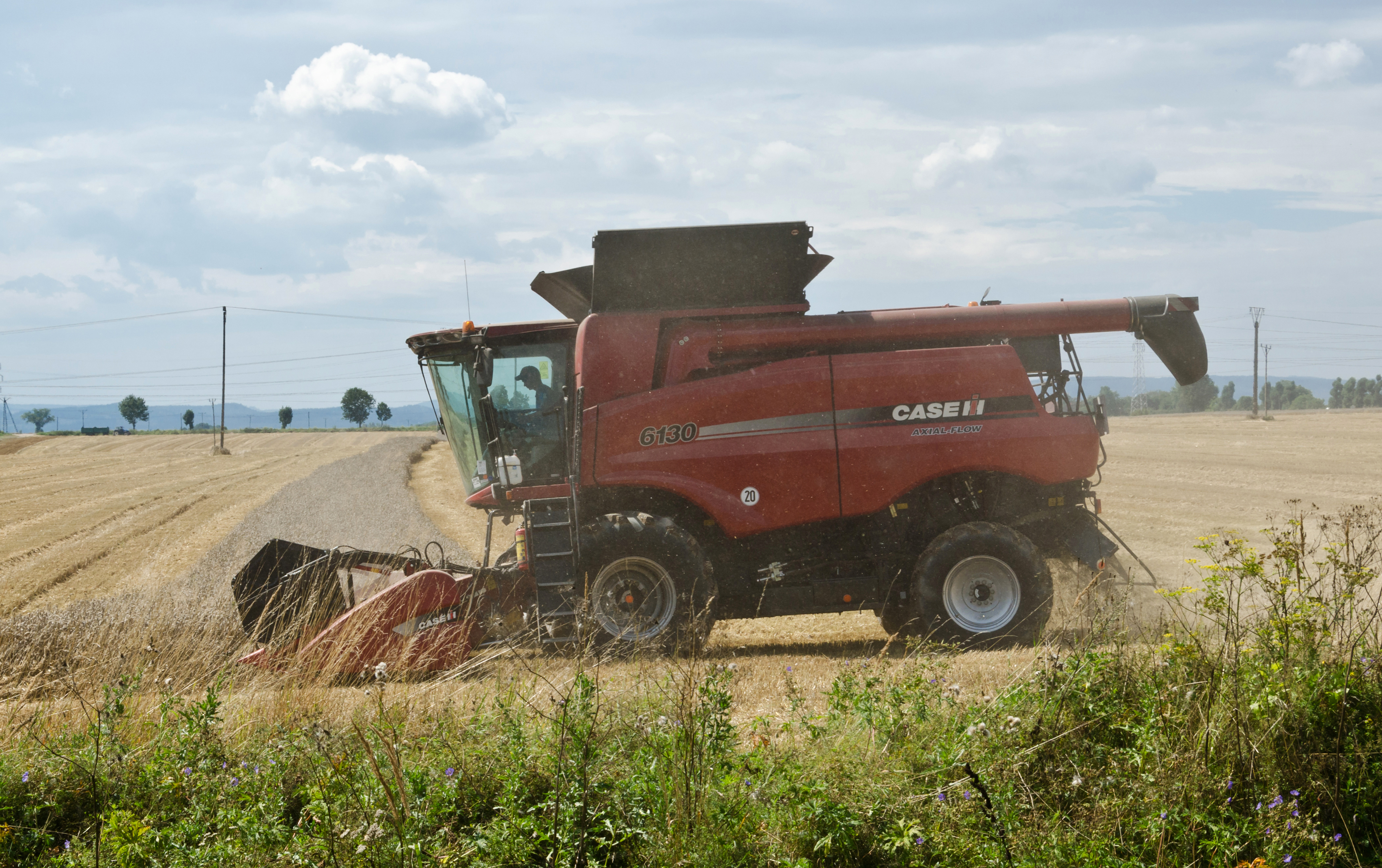 Kłodzko, Case IH 6130 combine harvester